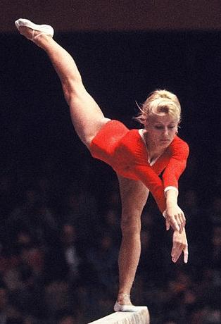 Polina Astakhova at the 1964 Olympics